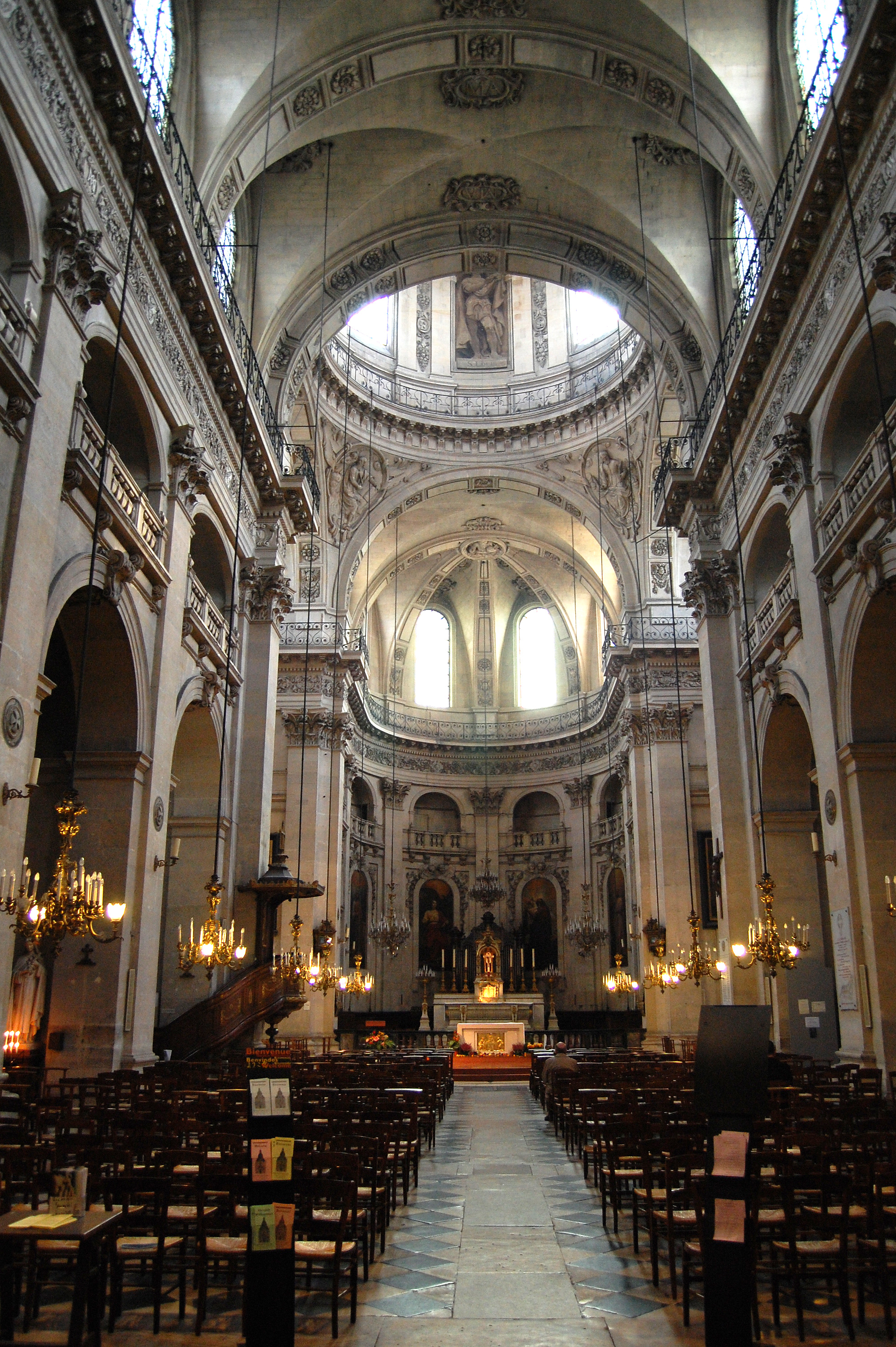 Church Saint-Paul-Saint-Louis, Marais district, Paris, France